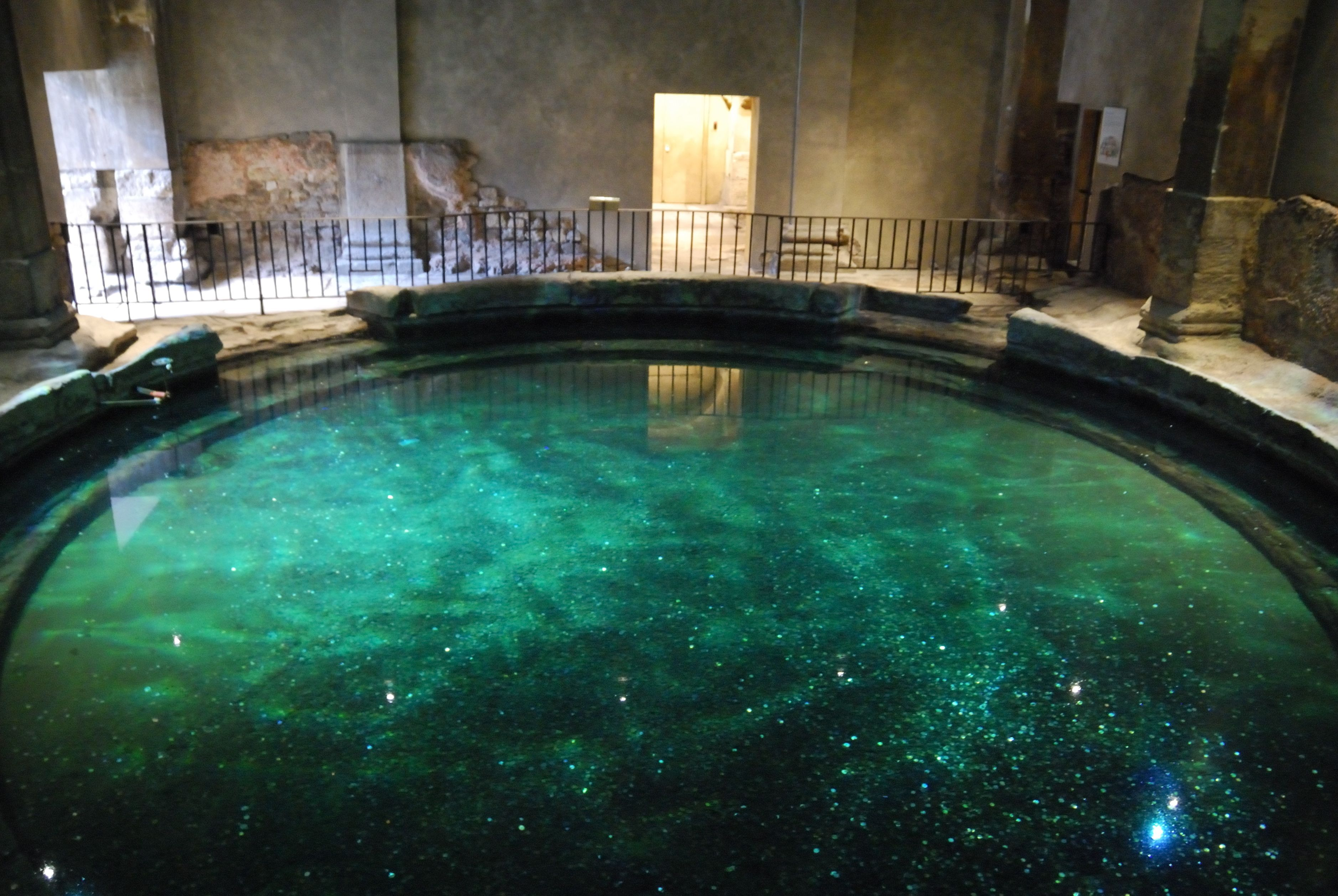 Bath - Le terme romane